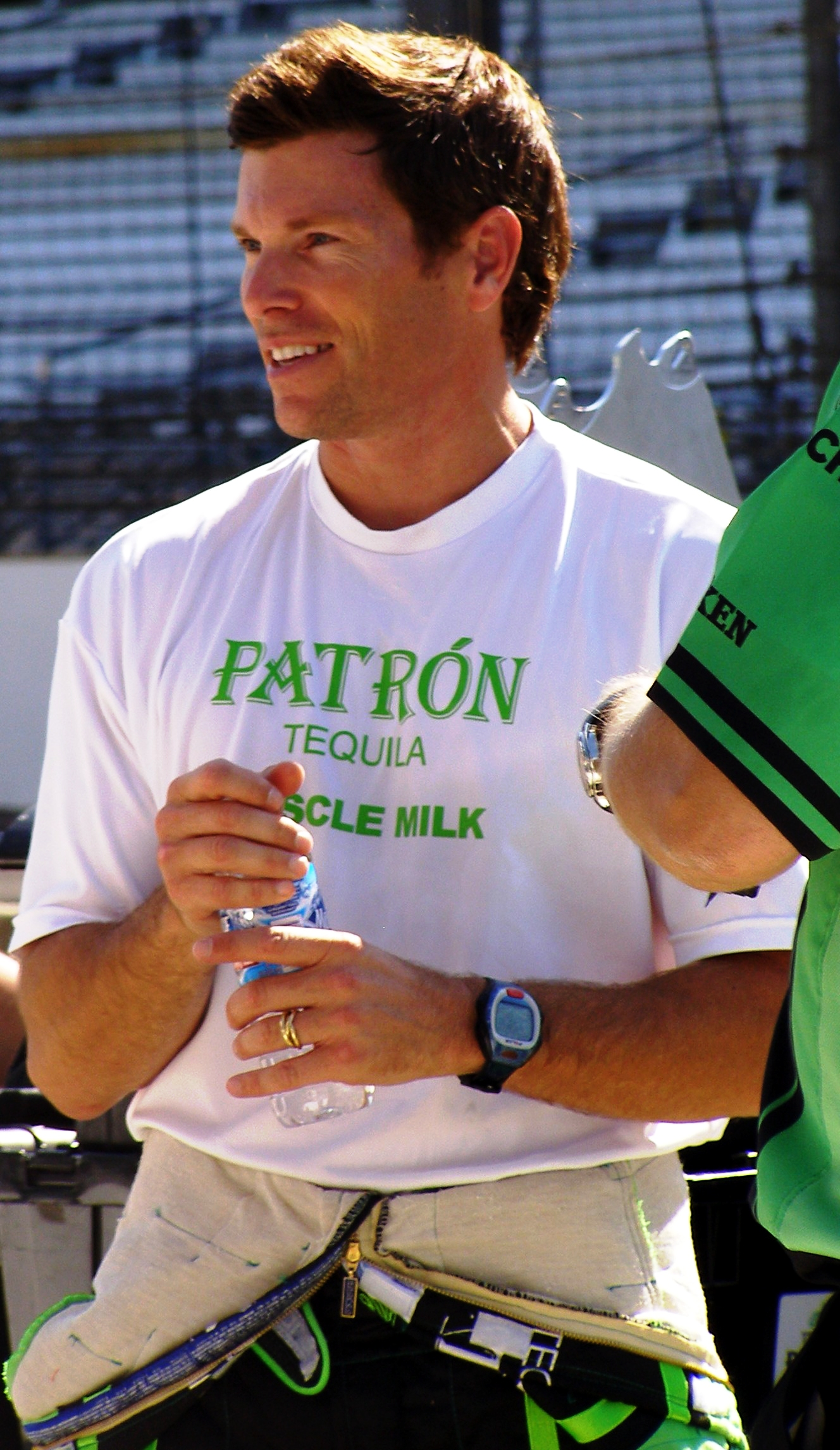 Scott Sharp during practice for the 91st Running of the Indianapolis 500.